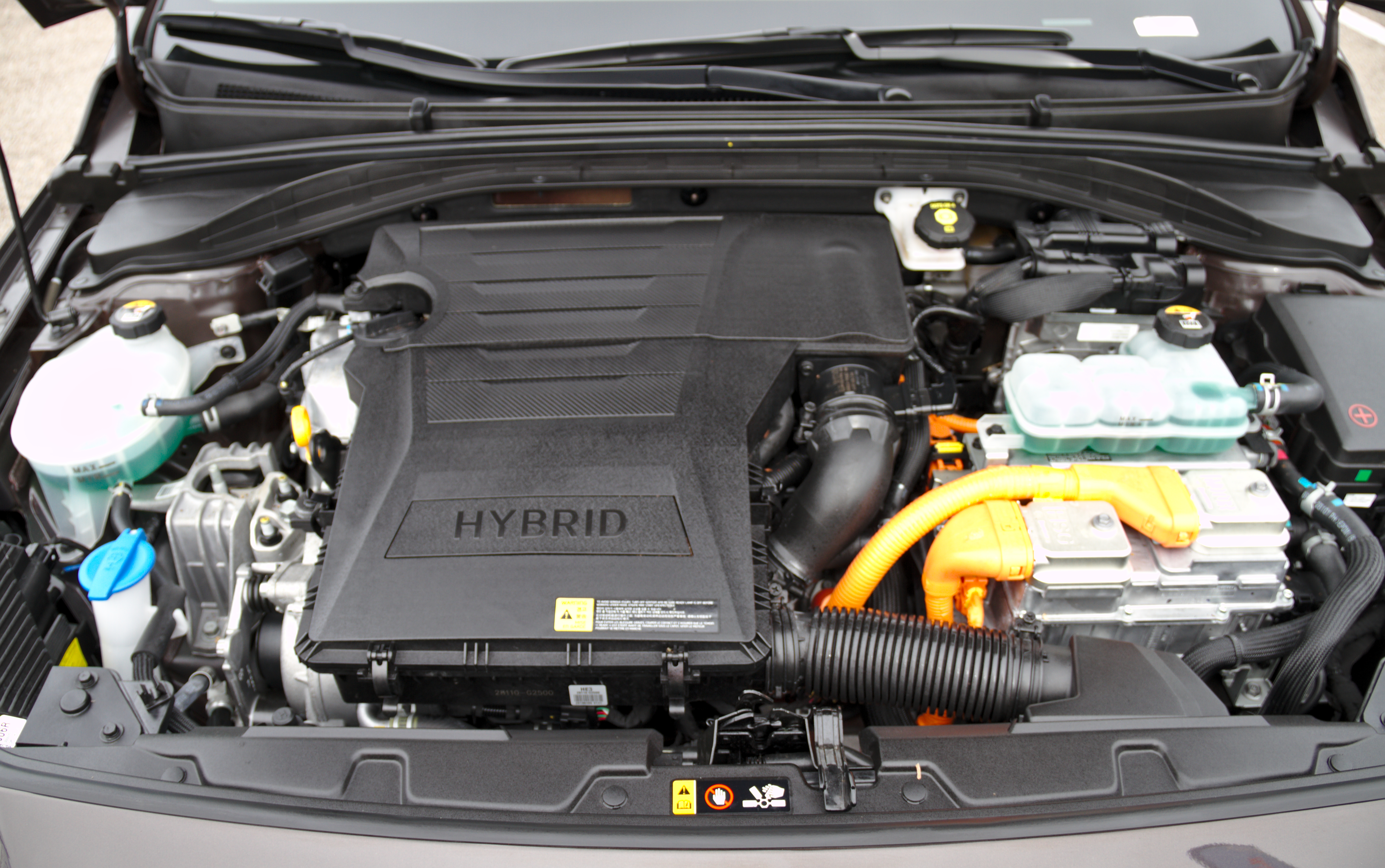 Hyundai_Ioniq_Hybrid at Leonberger Autoschau 2019